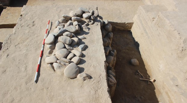 AUCA press